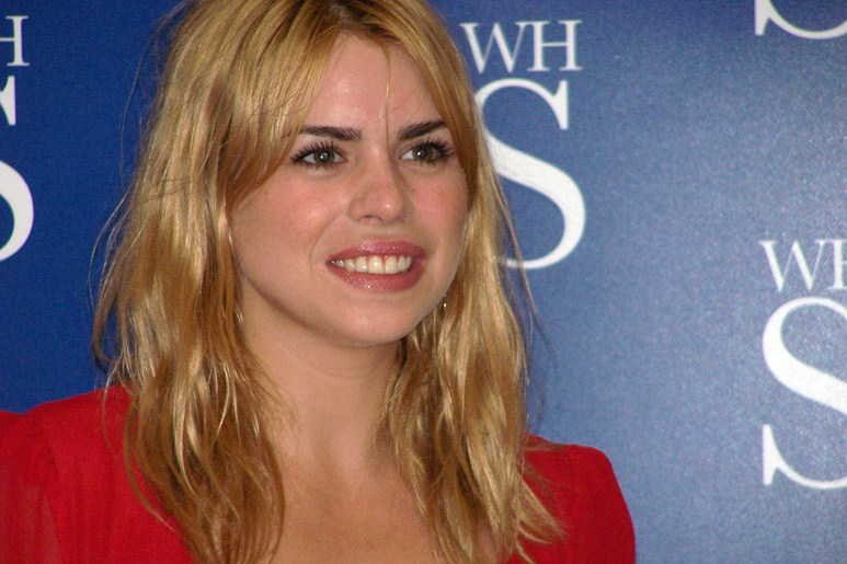 Billie Piper, at a Growing Pains book signing